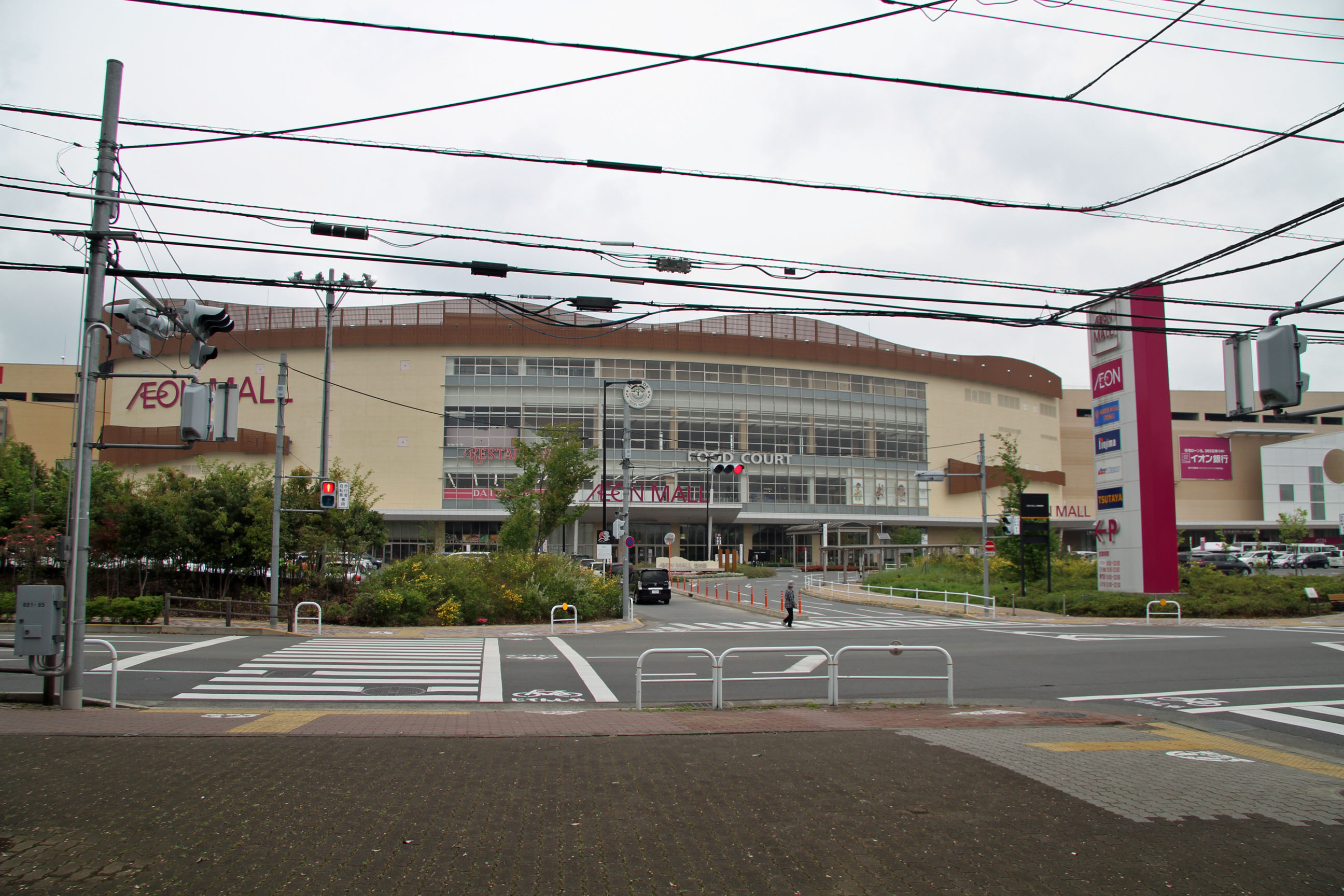 AEON Mall Hinode, Hinode, Tokyo, Japan